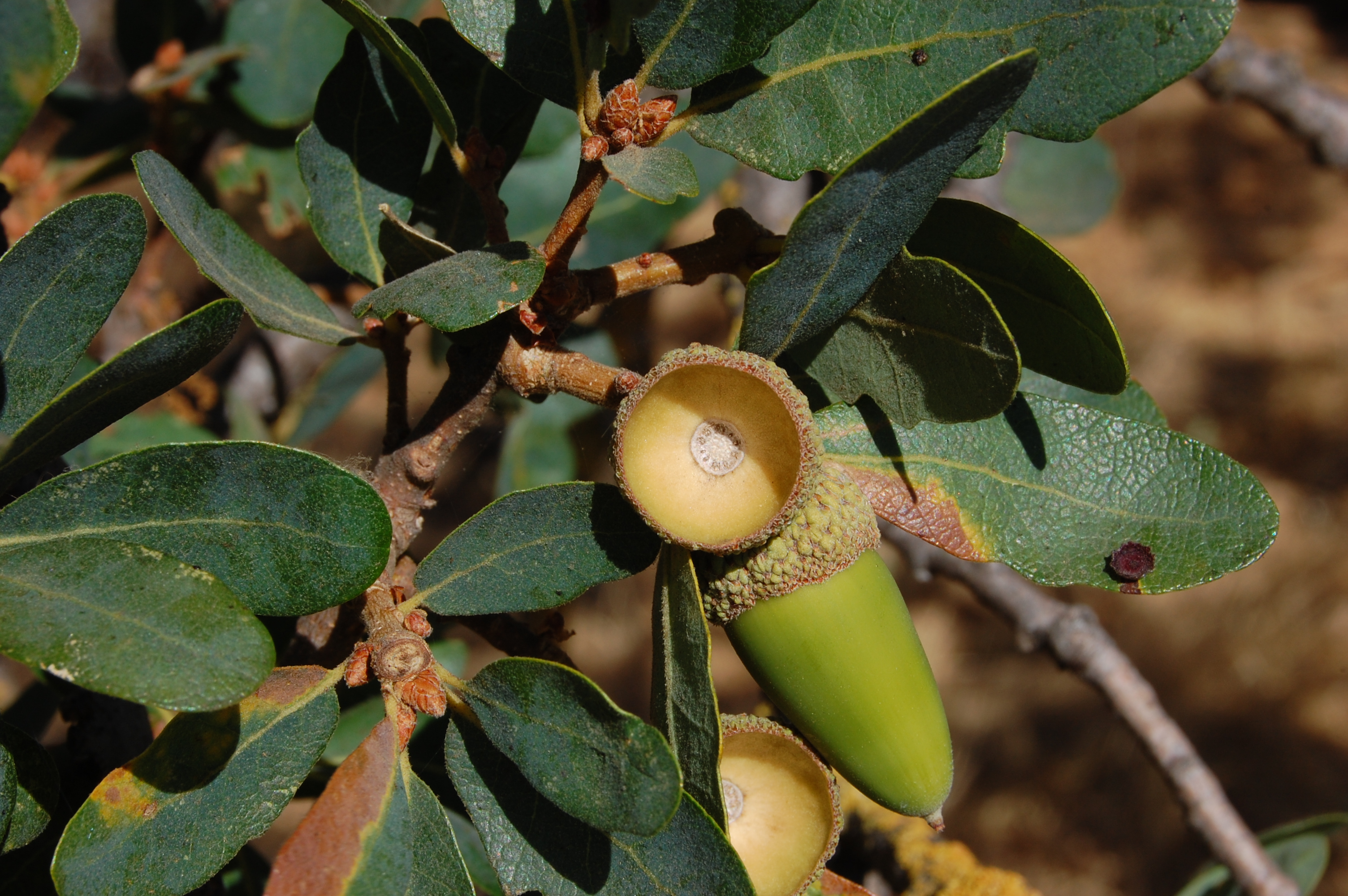 Blue Oak